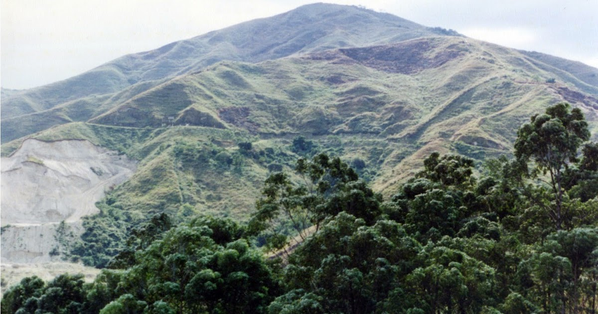 Summit of Cerro de las Tres Cruces, Medellin (Colombia)